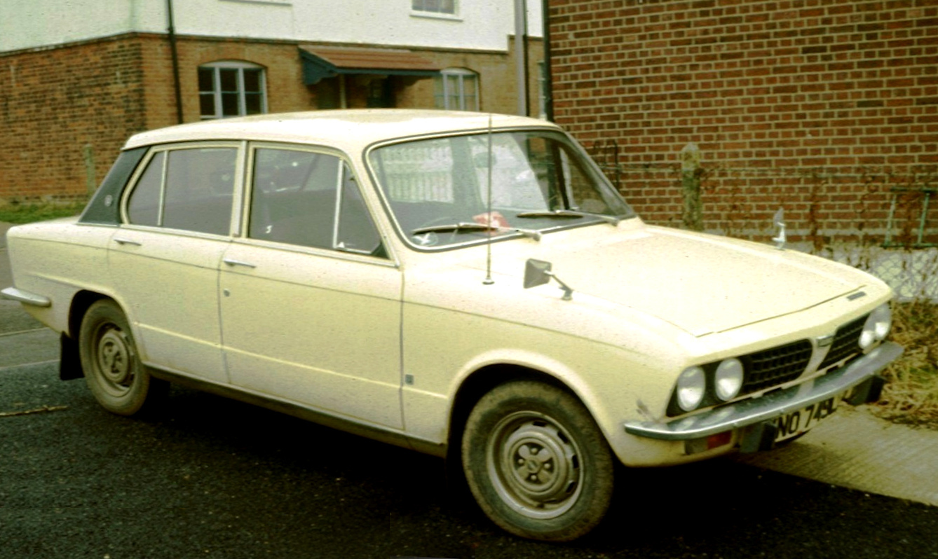 Early Triumph Dolomite (1970s version) in England